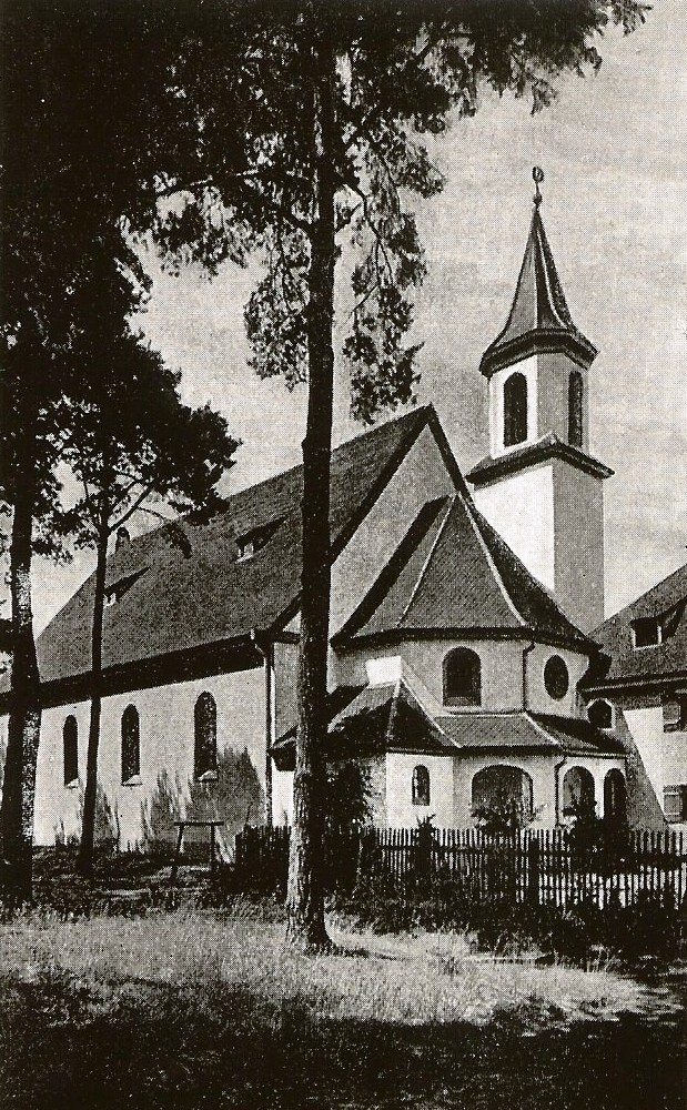 Die katholische Friedhofskirche